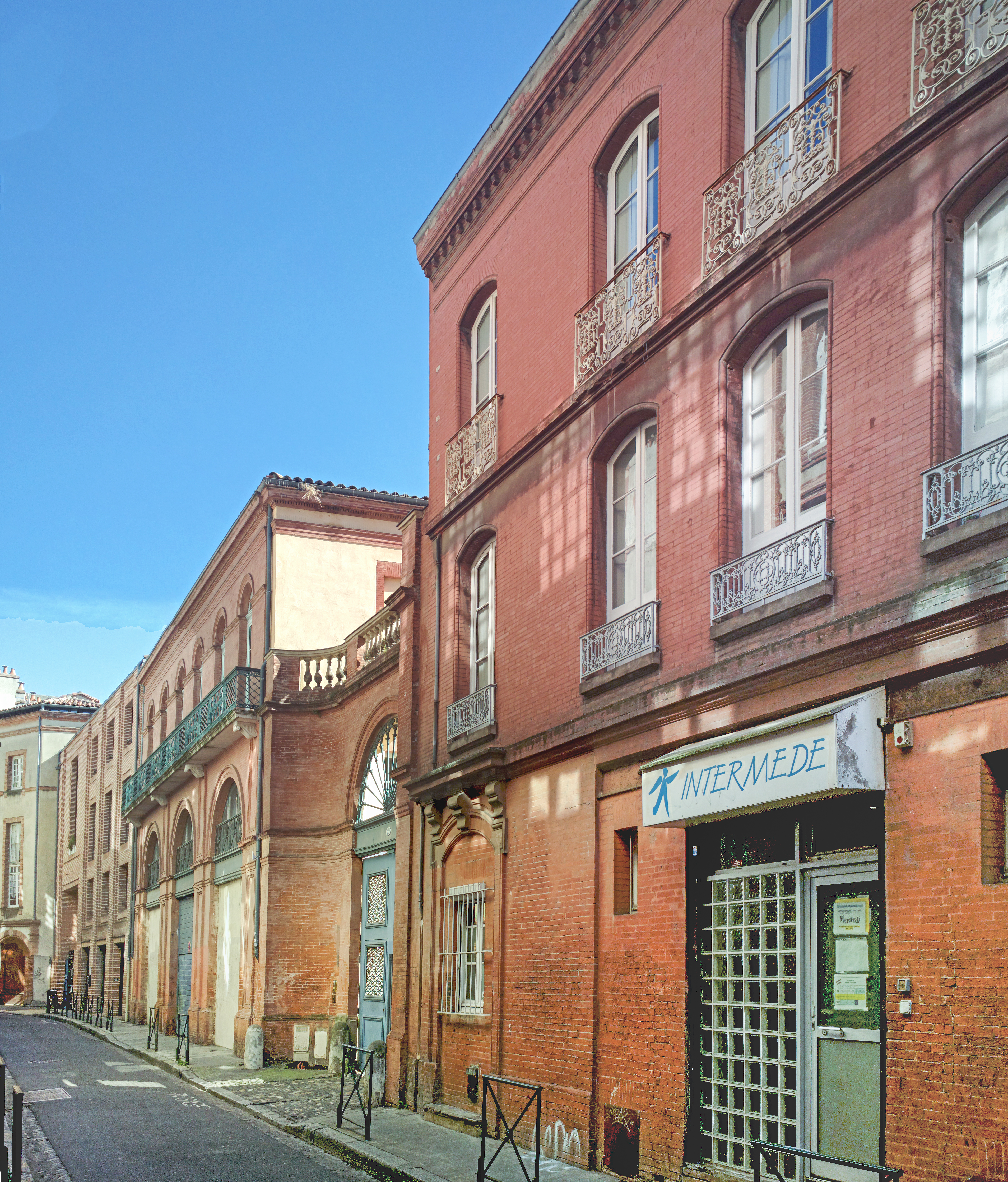 Rue Clémence-Isaure, in Toulouse - N ° 2bis Neoclassical building. The plan is symmetrical: the hotel has, on the street, a romantic facade element, with arched windows, adorned with ironwork. A porch surmounted by a balustrade leads to a courtyard. The two guard posts at the entrance, and an overhead metal raceway, connect the East and West building wings.